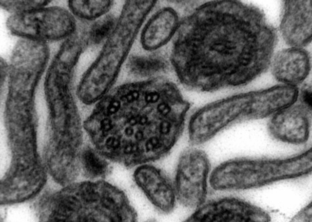 TEM image of a thin x-section cut through a human nasal cilia. Cilia cross section shows evidence of immotile cilia syndrome. Dynein sidearms are visible.